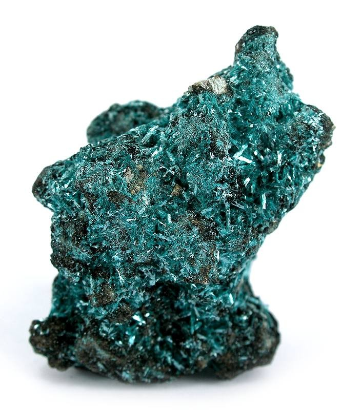 Botallackite Locality: Cligga Head, Perranzabuloe, St Agnes District, Cornwall, England, UK (Locality at ) Size: 3.6 x 2.8 x 2.4 cm. A small specimen perhaps, but the most richly covered with outstanding, sharp crystals on all sides and faces.